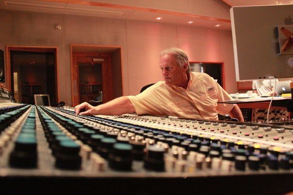 Roger Nichols in the studio.